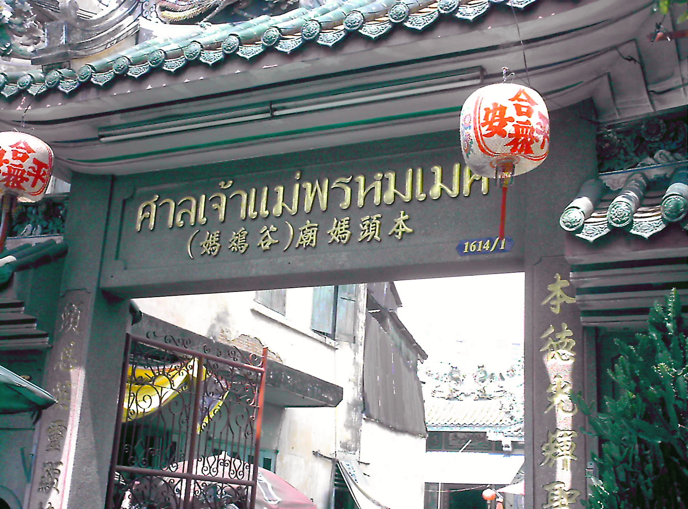 Main Gate of Chinese Earth Godess at 1614/1 Charoen Krung Road, Bang Rak, Bangkok, Thailand 中文（香港）: 泰國，曼谷，挽叻縣，石龍軍路 1614/1號，本頭媽廟(谷雞媽)，山門